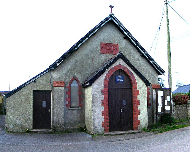 Church Hall. St.Mary's Church Hall built 1912 in the village of Herbrandston.